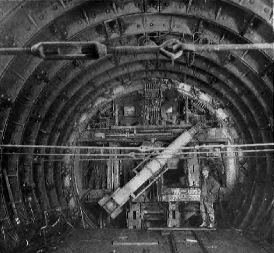 View of the back of the hydraulic tunnel shield installed during construction in the south tube of the North River Tunnels under the Hudson River. The North River Tunnel project was part of the larger New York Tunnel Extension project of the Pennsylvania Railroad.